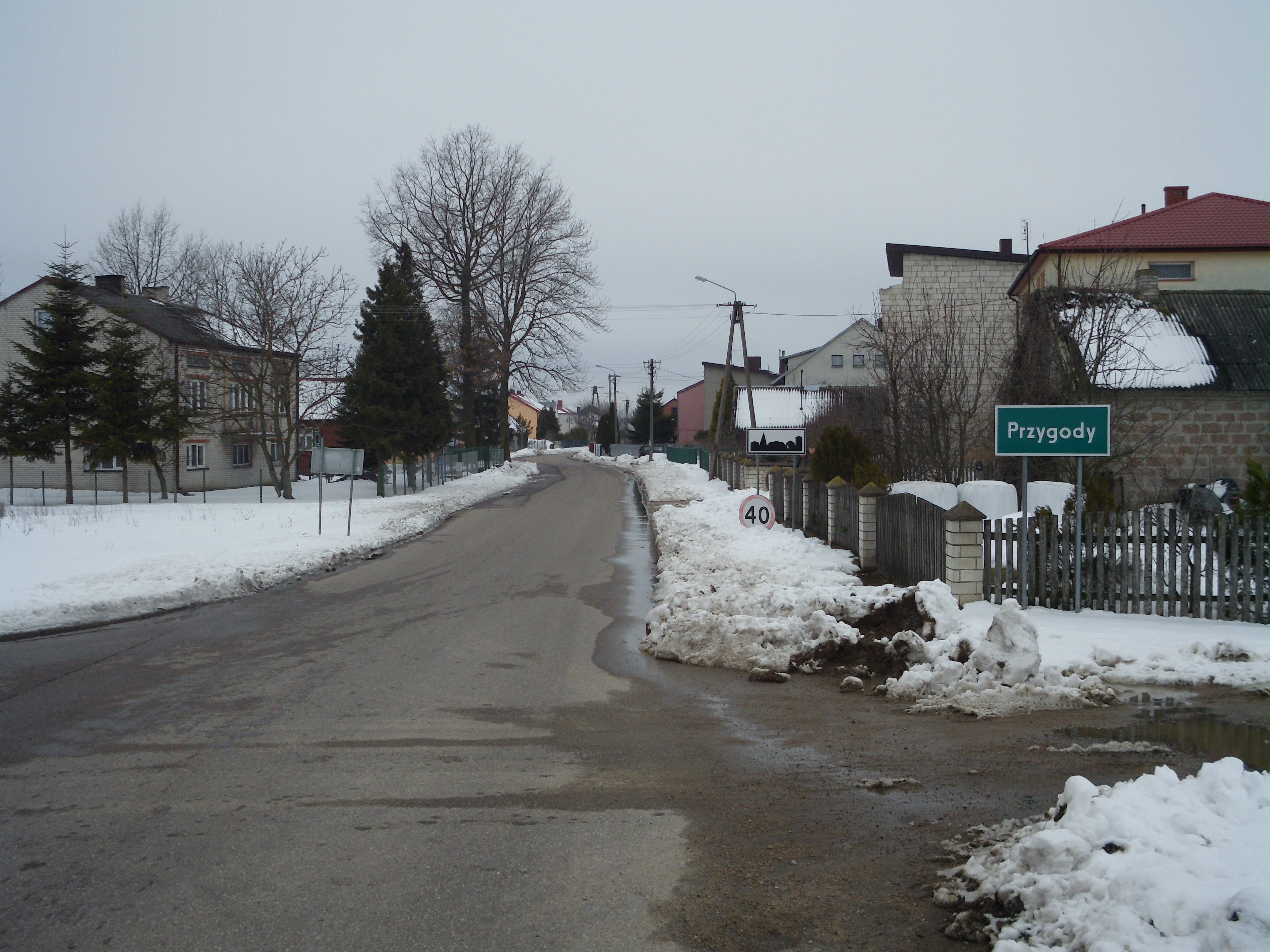 Przygody village in Poland, as seen from a crossing with the railroad from Siedlce to Sokołów Podlaski.